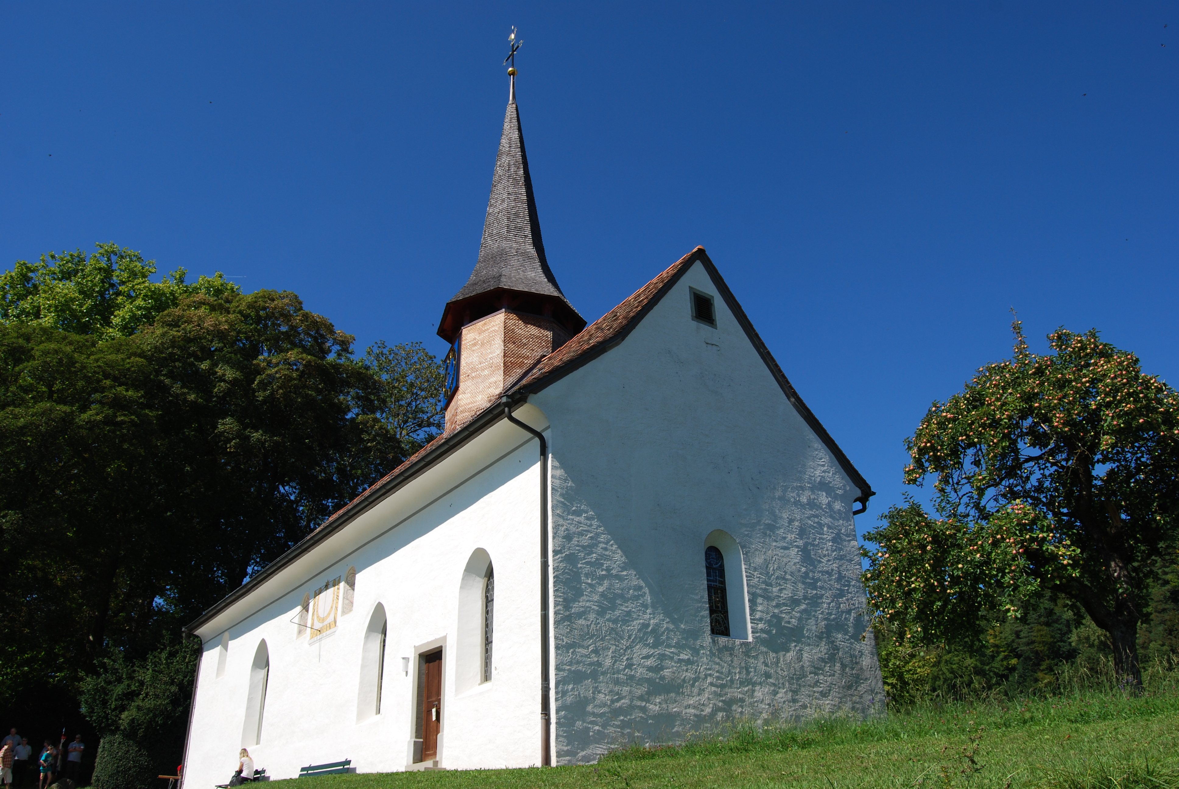 Chapel Saint Gallus at Oberstammheim, canton of Zürich, SwitzerlandEsperanto: Kapelo Sankta Gallus en Oberstammheim, Kantono Zürich, Svislando